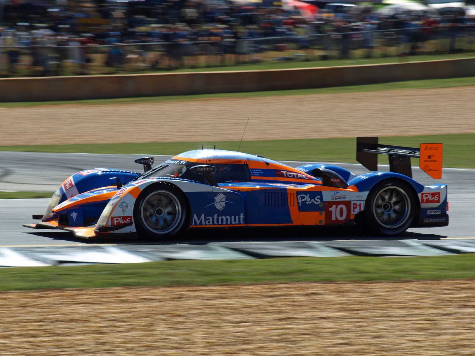 Nicolas Lapierre driving the Team Oreca Matmut Peugeot 908 HDi FAP in the 2011 Petit Le Mans at Road Atlanta.